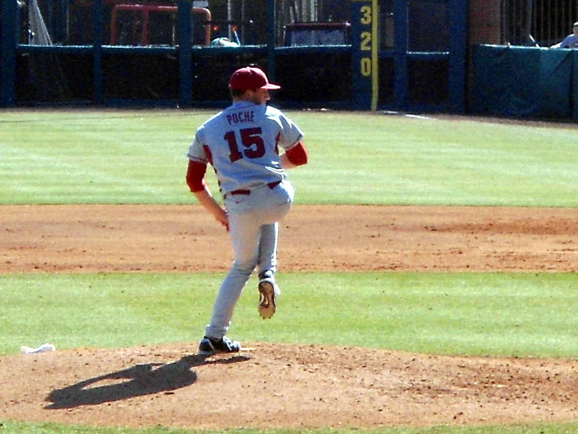 Collin Poche pitches for the Arkansas Razorbacks against the Evansville Purple Aces